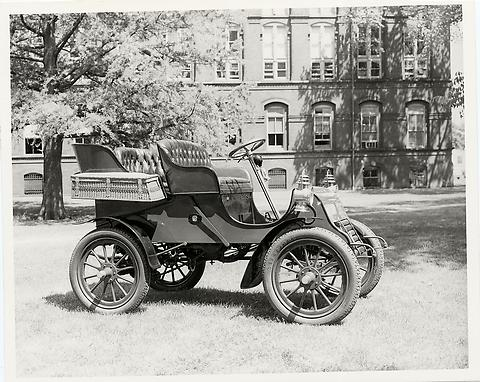 Cadillac, 1903, from the Smithsonian